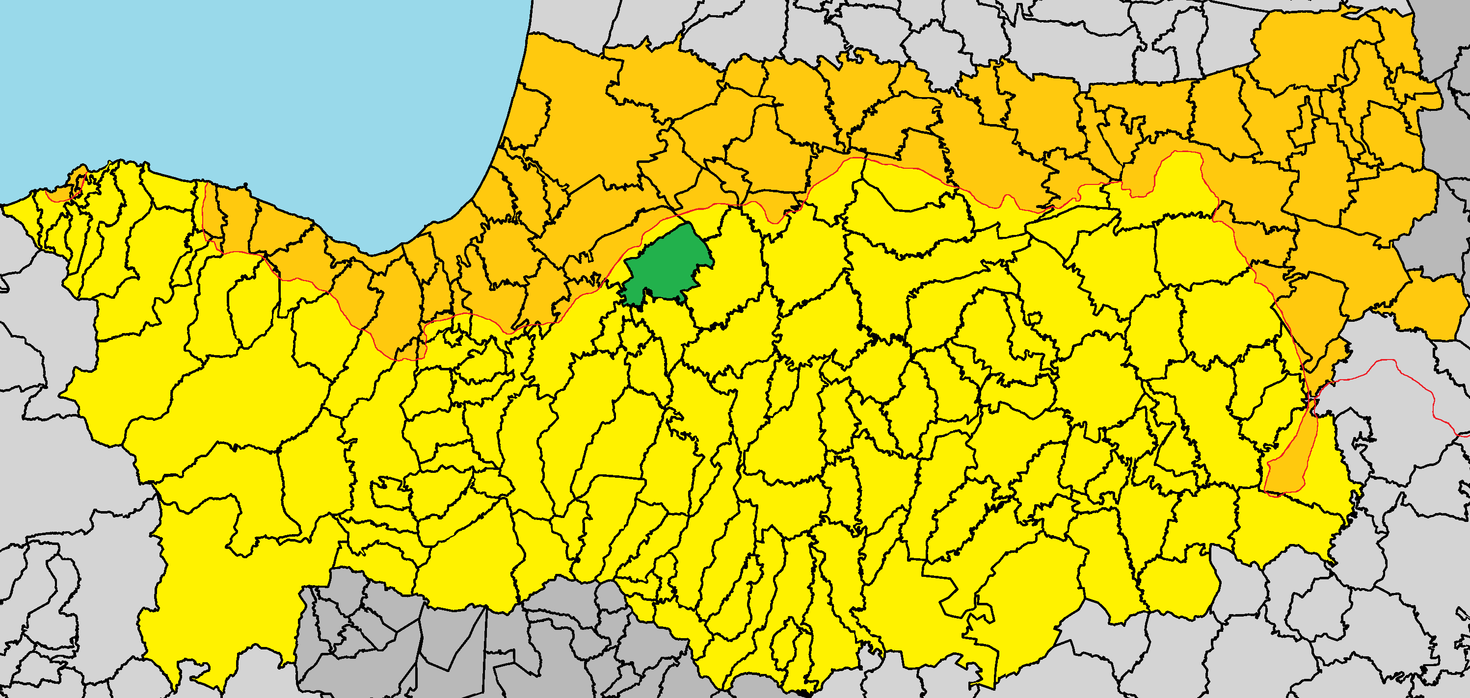 Astromeritis in Nicosia District.